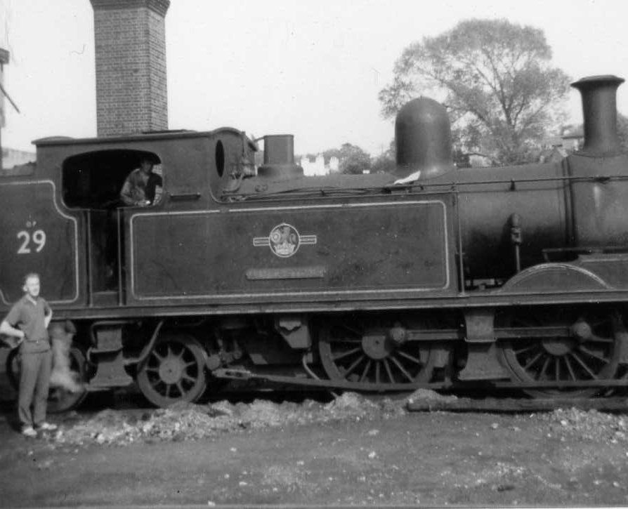 Author: Sludgeulper on Flickr. Source: [1]